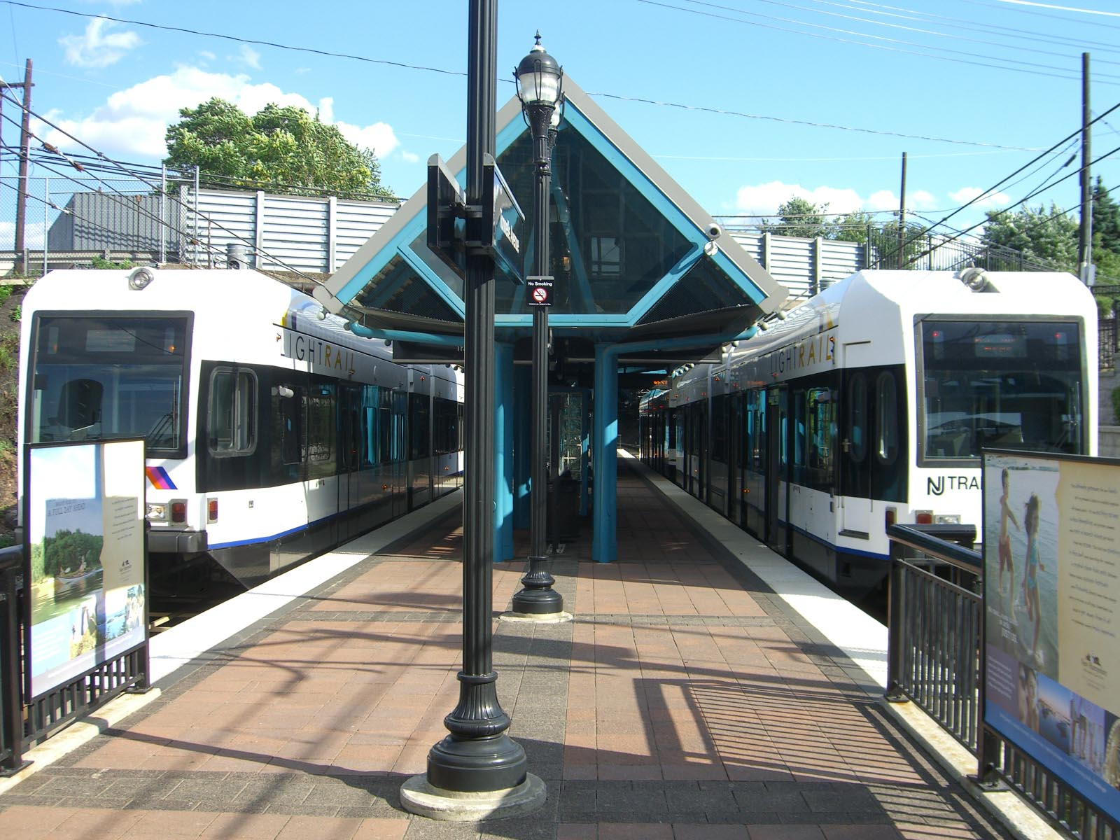 The Tonnelle Ave station of the Hudson-Bergen Light Rail line in North Bergen, New Jersey.